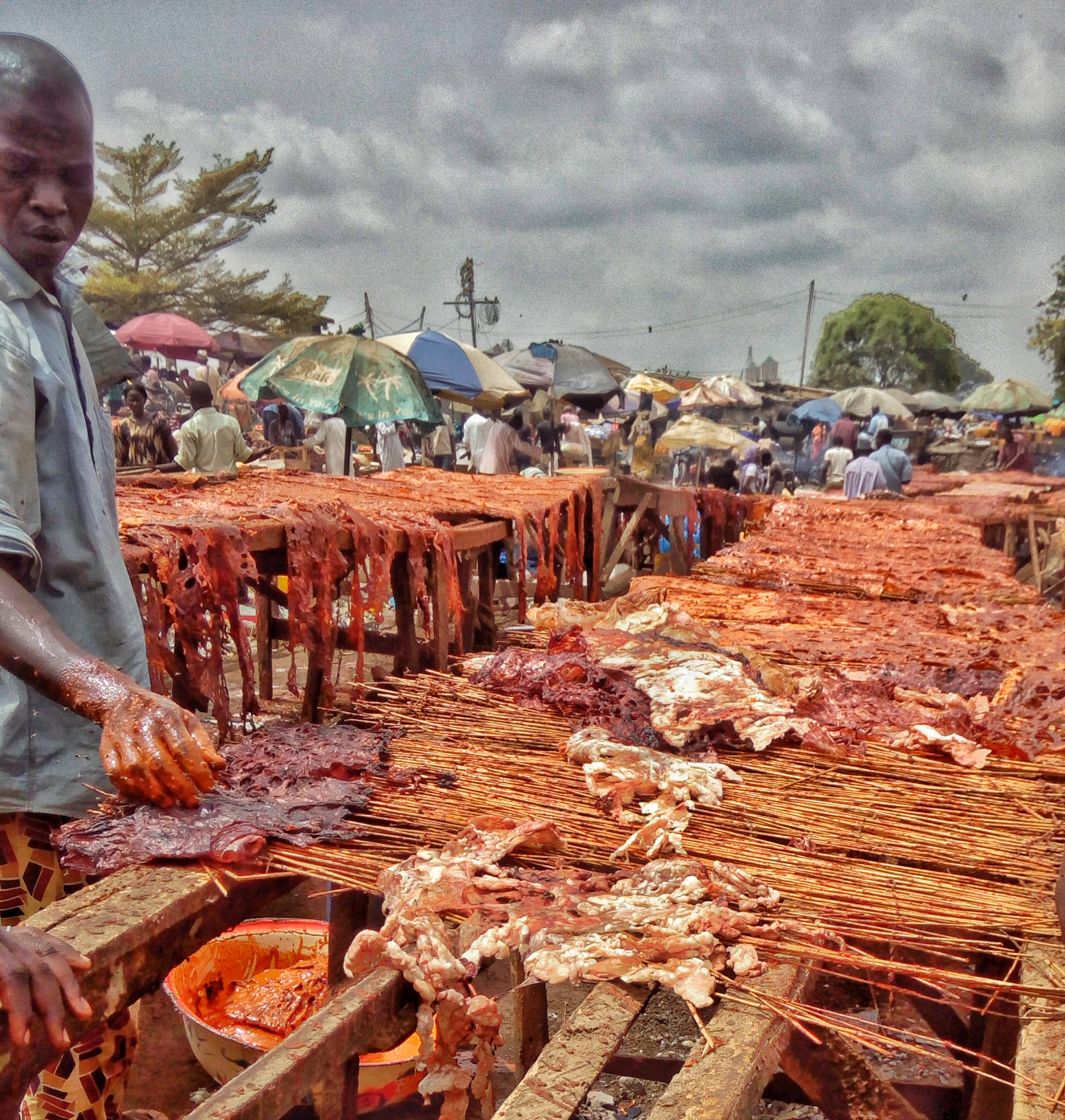 This image was taken at central market kaduna state, Northern Nigeria. i just finished my national youth service and i decided to get some things i would take down south, i came across where the popular Nigerian meat kebab (kilishi) is being prepared, hence this image. This is an image of "African people at work" from Nigeria